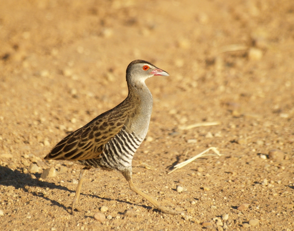 African Crake taken on the Zaagkuildrift Road, beside the Pienaars River, 2 hours north of Johannesburg in South Africa